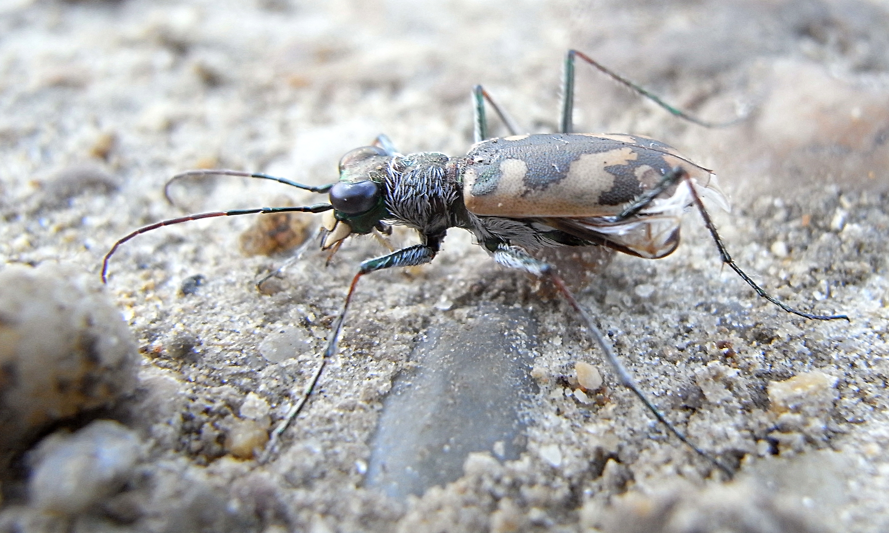 Cephalota circumdata Ricoh R8